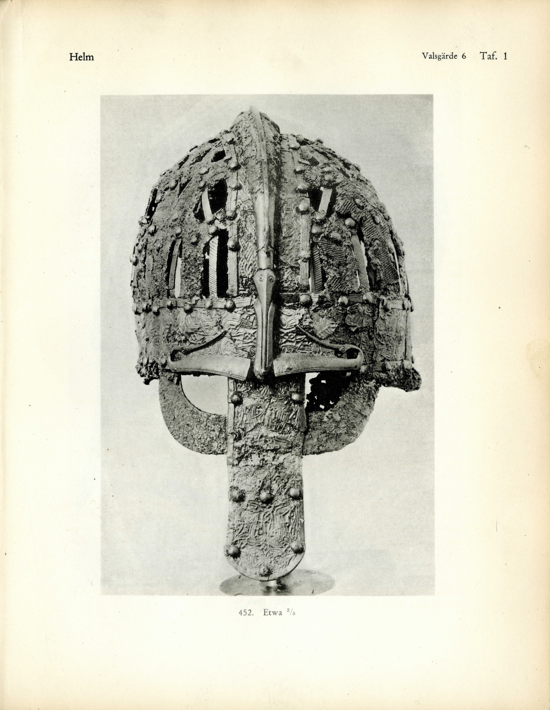 Plate 1 from Greta Arwidsson's 1942 book "Valsgärde 6," depicting the helmet found in said grave.